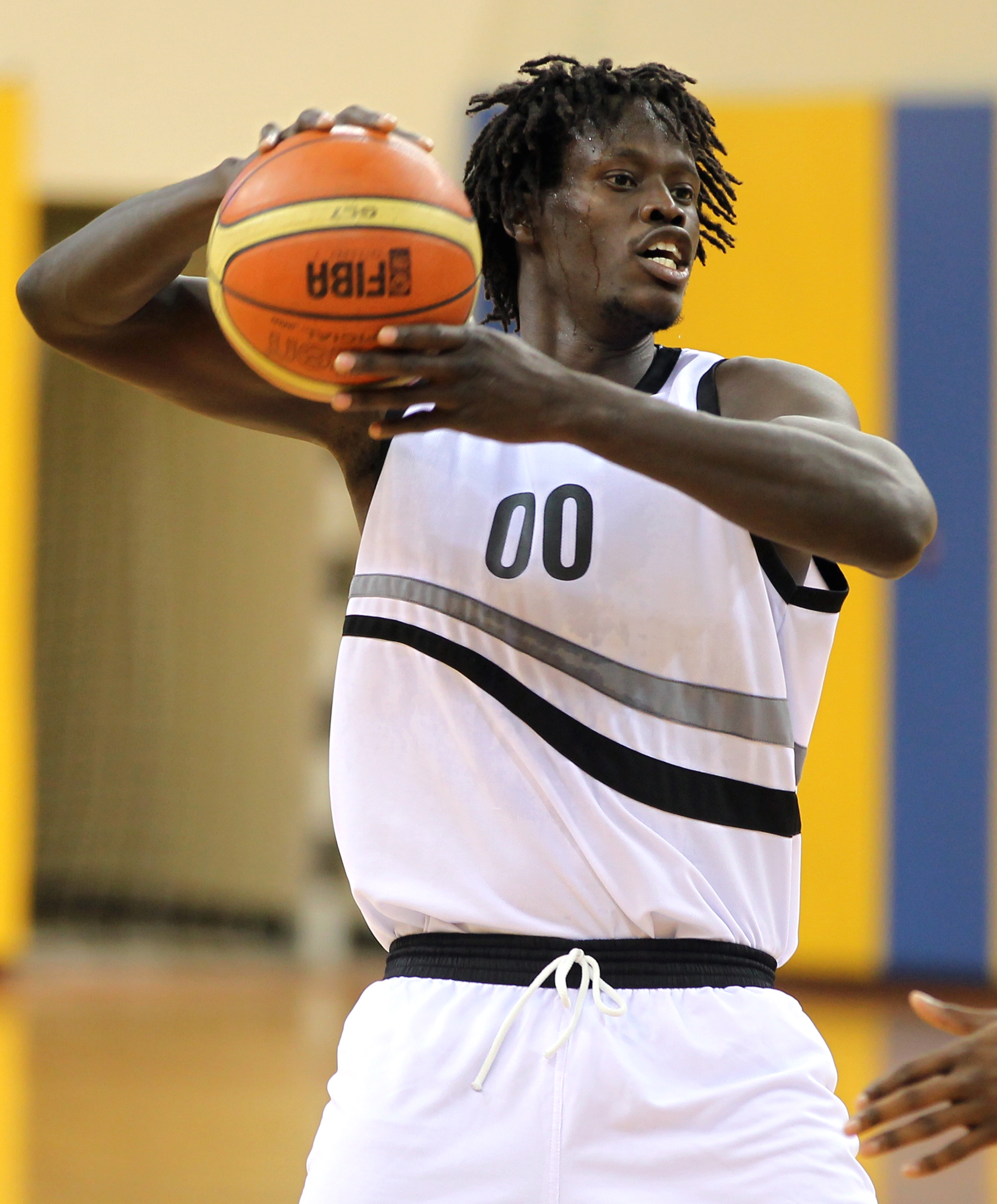 Al Sadd's Daoud Mousa Daoud handles the ball during their Qatar League game against Al Rayyan. Picture by Mohan